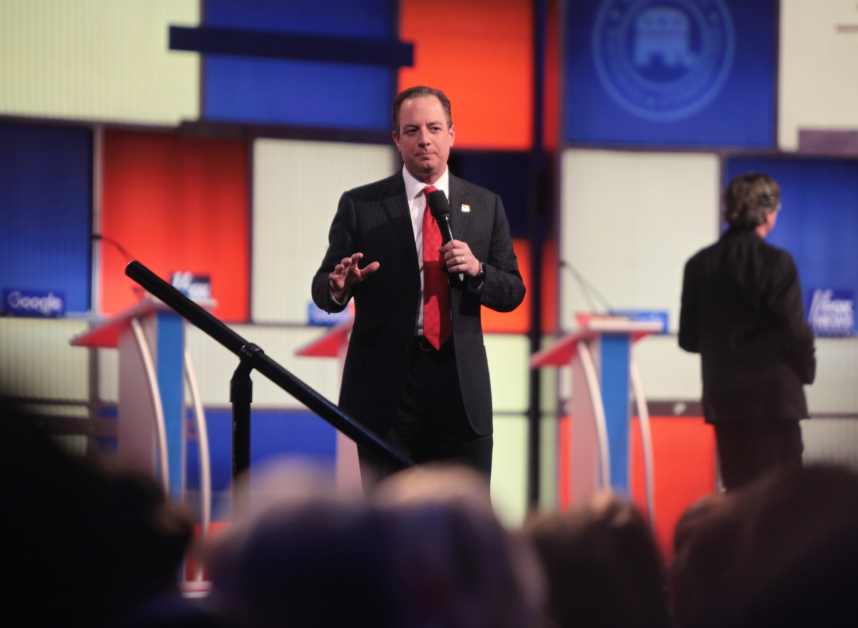 Hosted by Fox News at the Iowa Events Center in Des Moines, Iowa